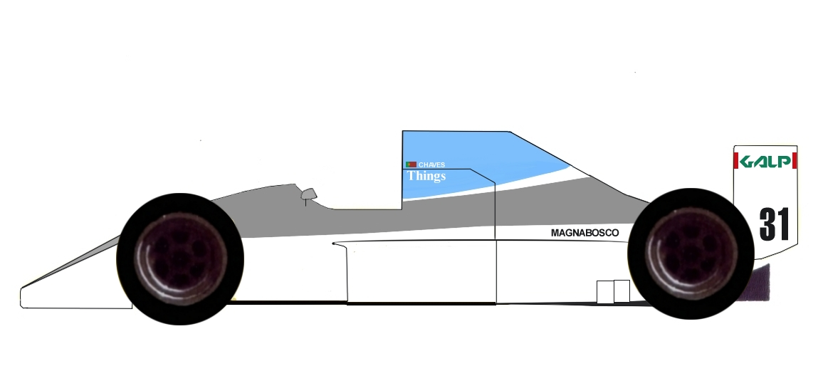 Coloni C4-Ford Formula 1 Car 1991